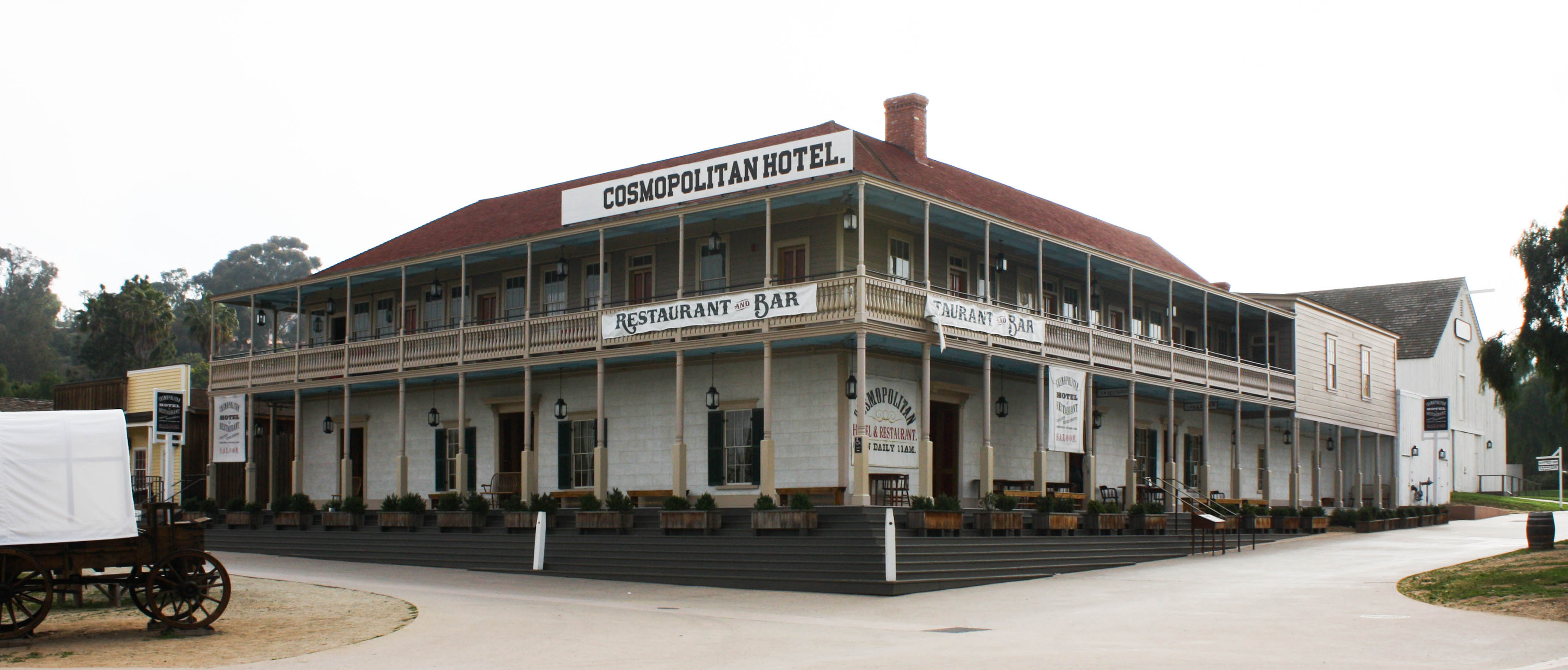 Cosmopolitan Hotel (formerly Casa de Bandini - 1829) in Old Town San Diego State Historic Park, San Diego, California